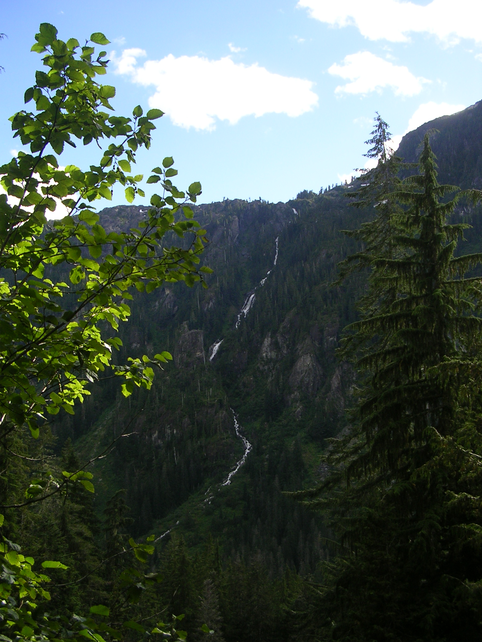 Della Falls, seen from the trail to Love Lake. Strathcona Provincial Park, British Columbia.